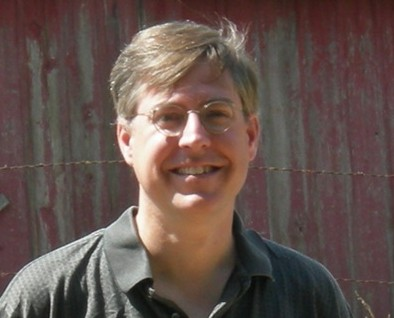 Thomas Frank Photo